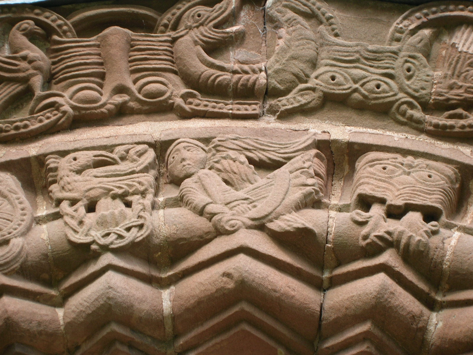 Kilpeck church, detail of tympanum